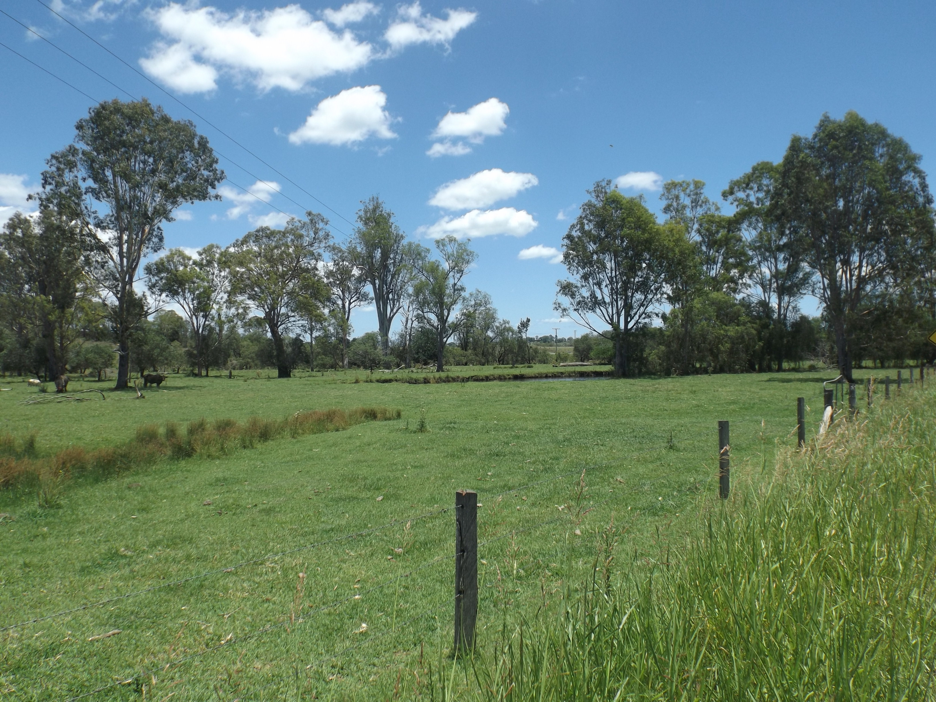 Photo of paddocks at Coulson, Scenic Rim Region, Queensland, Australia.